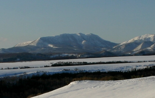 The Southeast side of Mount Shibetsu as seen from Kaiyodai.